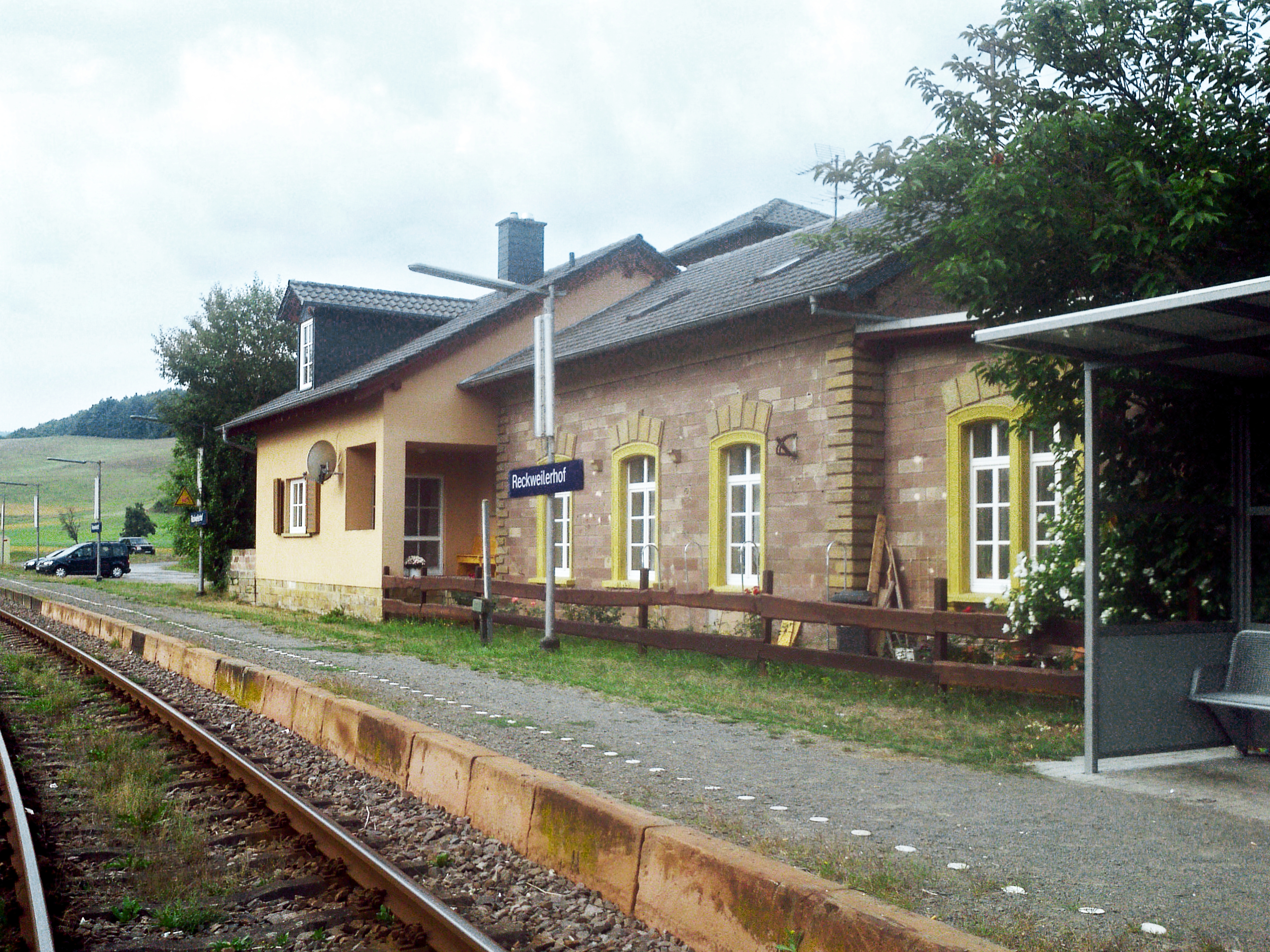 train station Reckweilerhof, Rhineland-Palatinate